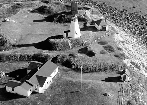 Plymouth Lighthouse, Plymouth, Massachusetts, USA showing the one remaining tower built 1842 in the earthworks of Civil War Fort Andrew.